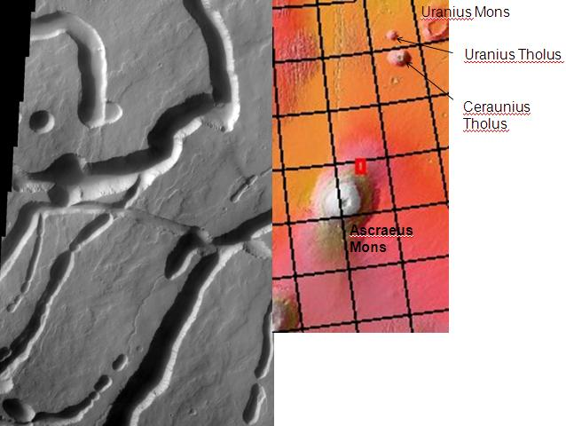 Ascraeus Mons with THEMIS. The location is 14.5 degrees north latitude and 257.3 degrees east longitude. Image was taken with the Mars Odyssey's THEMIS.